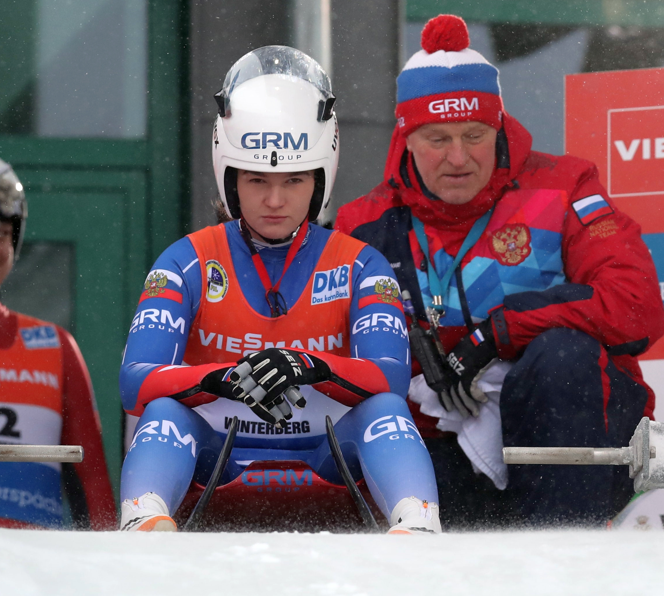 Luge World Cup Women in Winterberg: Ekaterina Katnikova